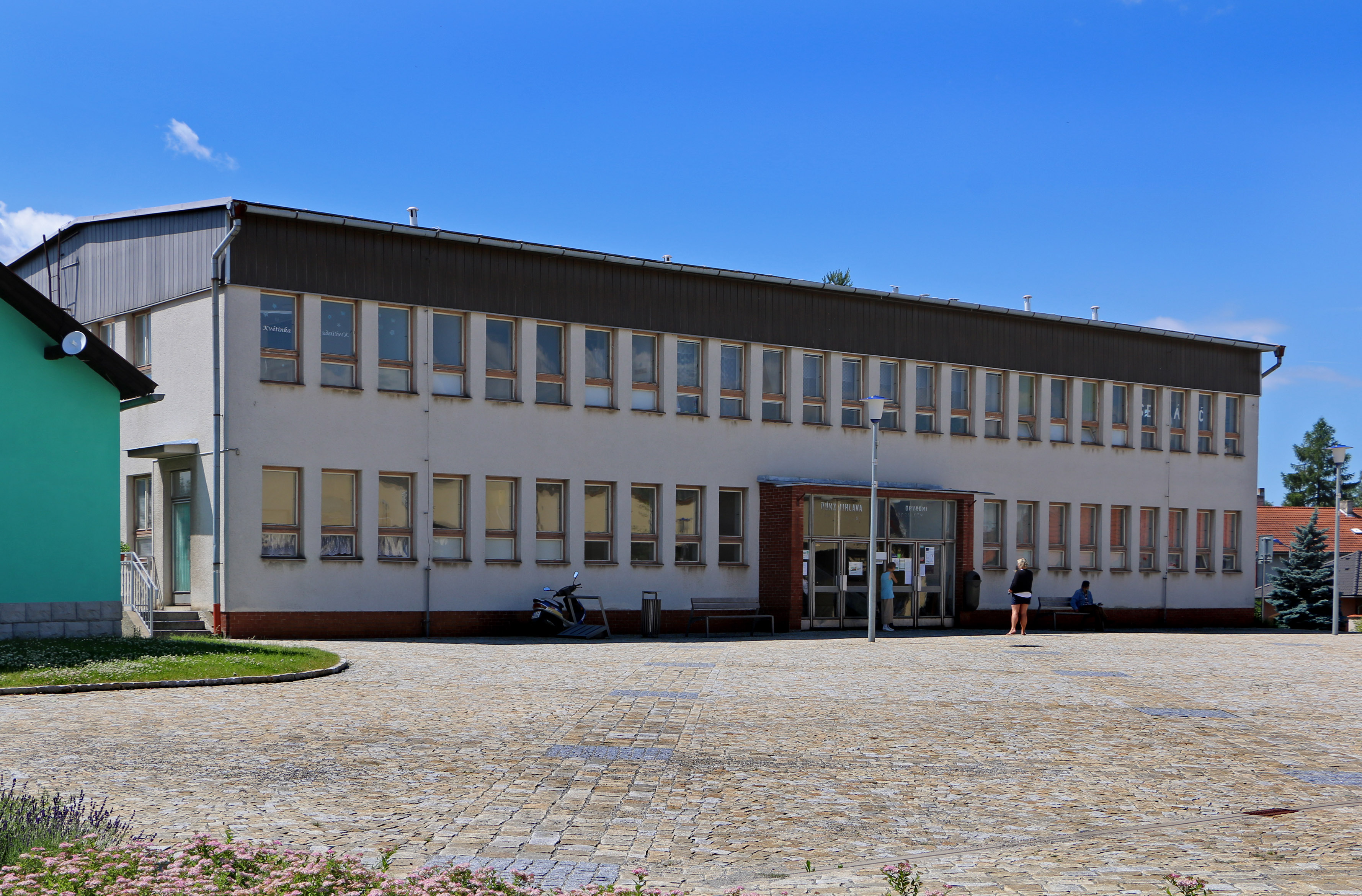 Health center in Stonařov, Czech Republic.